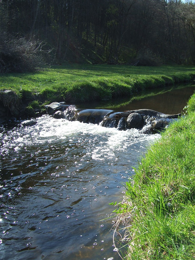 River Sudervėlė